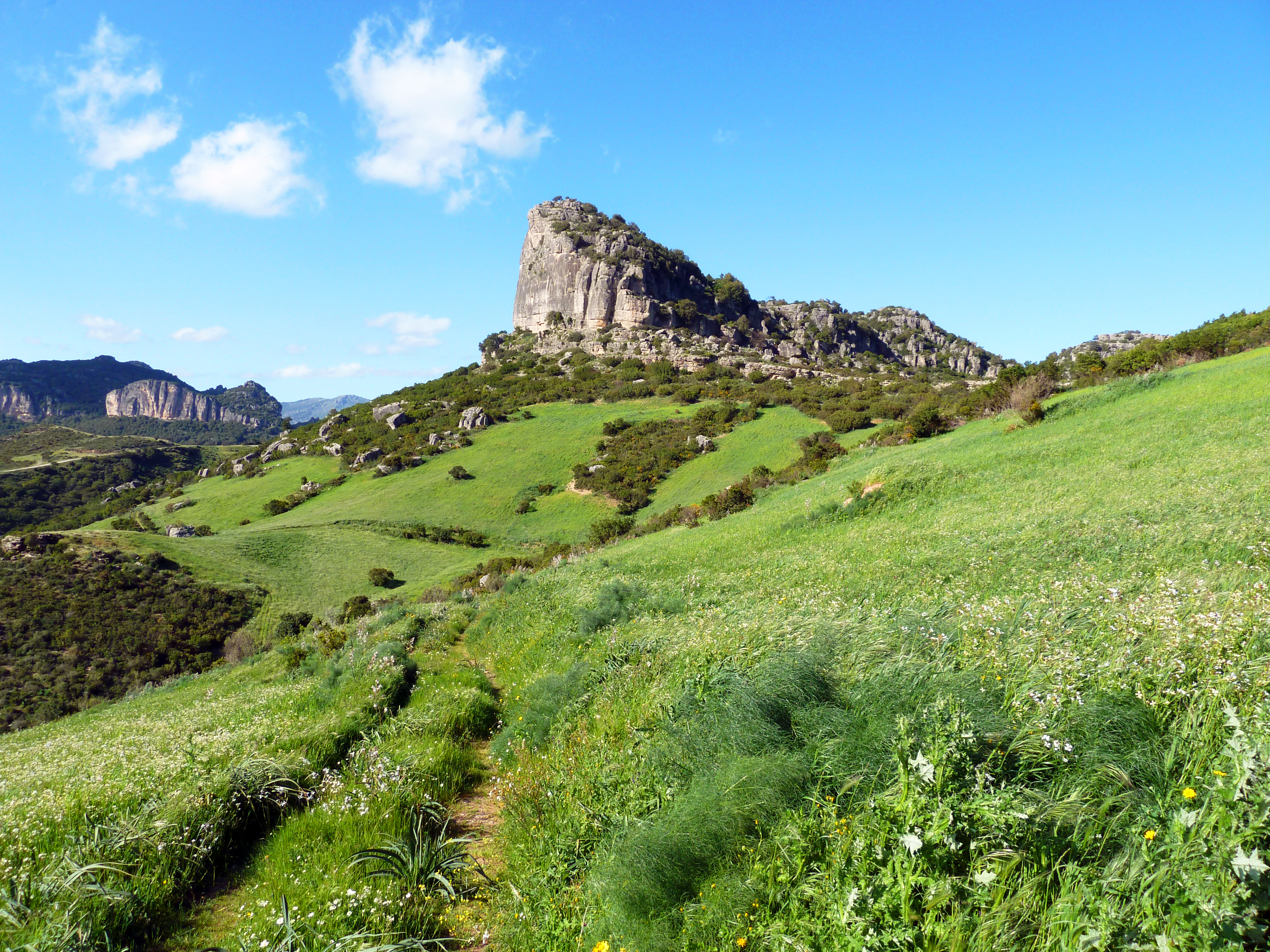 Lumburau - Jurassic dolostone near Jerzu